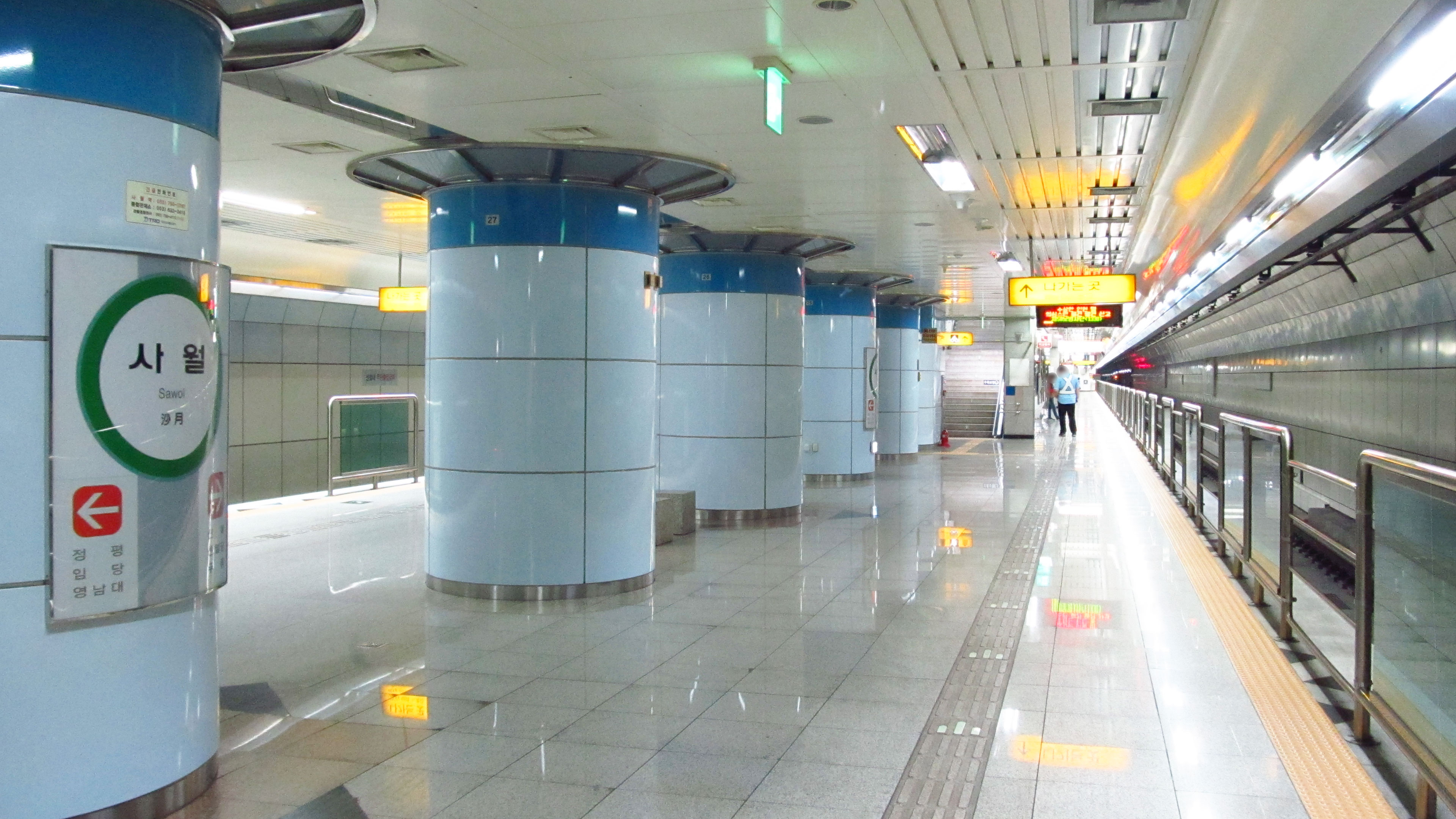 The platform of Sawol Station on the Daegu Metro Line 2